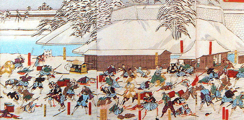 Detail from File:Sakuradamon incident 1860.jpg